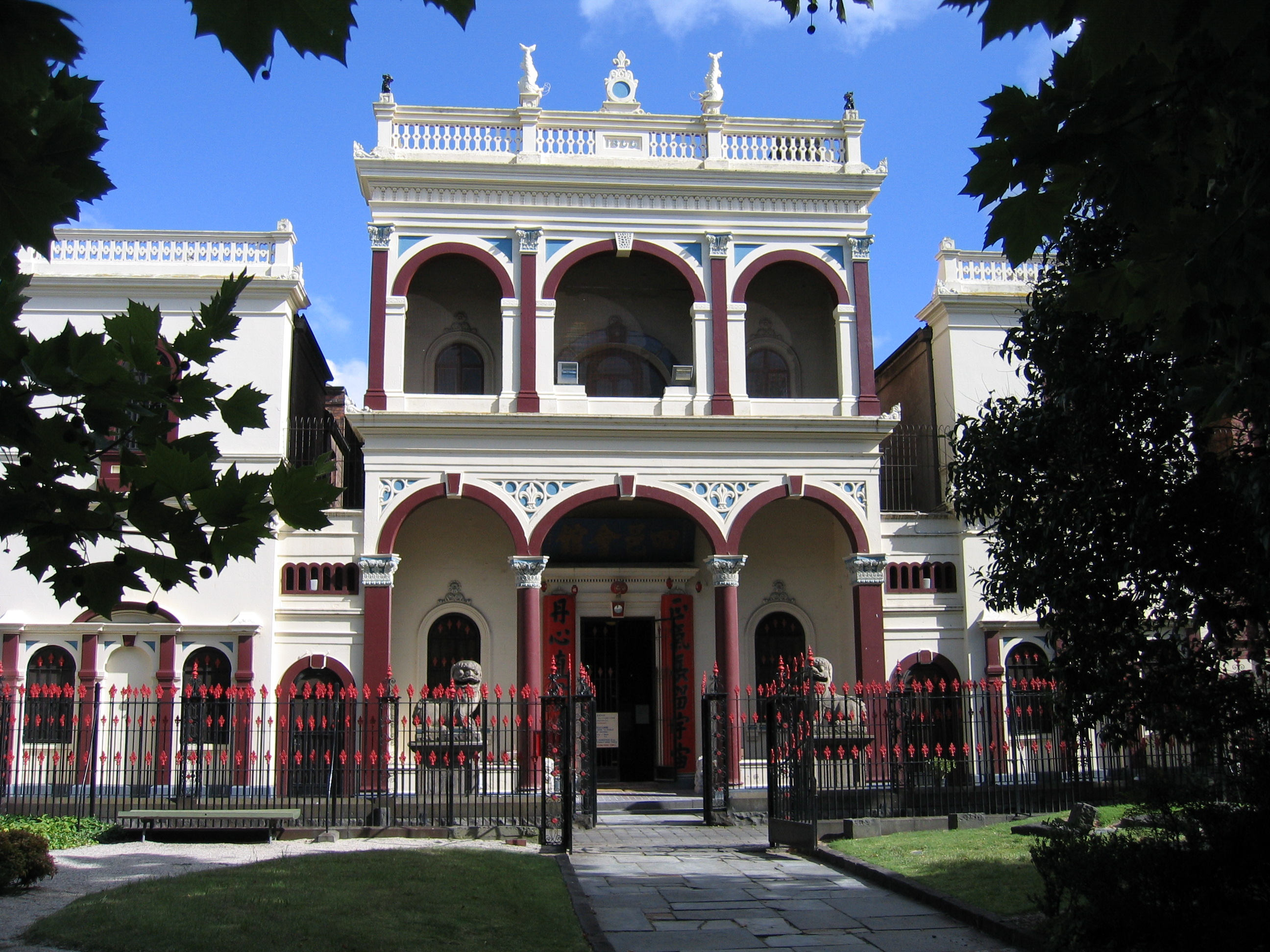 Facade of the See Yup Temple off Raglan Street South Melbourne Victoria